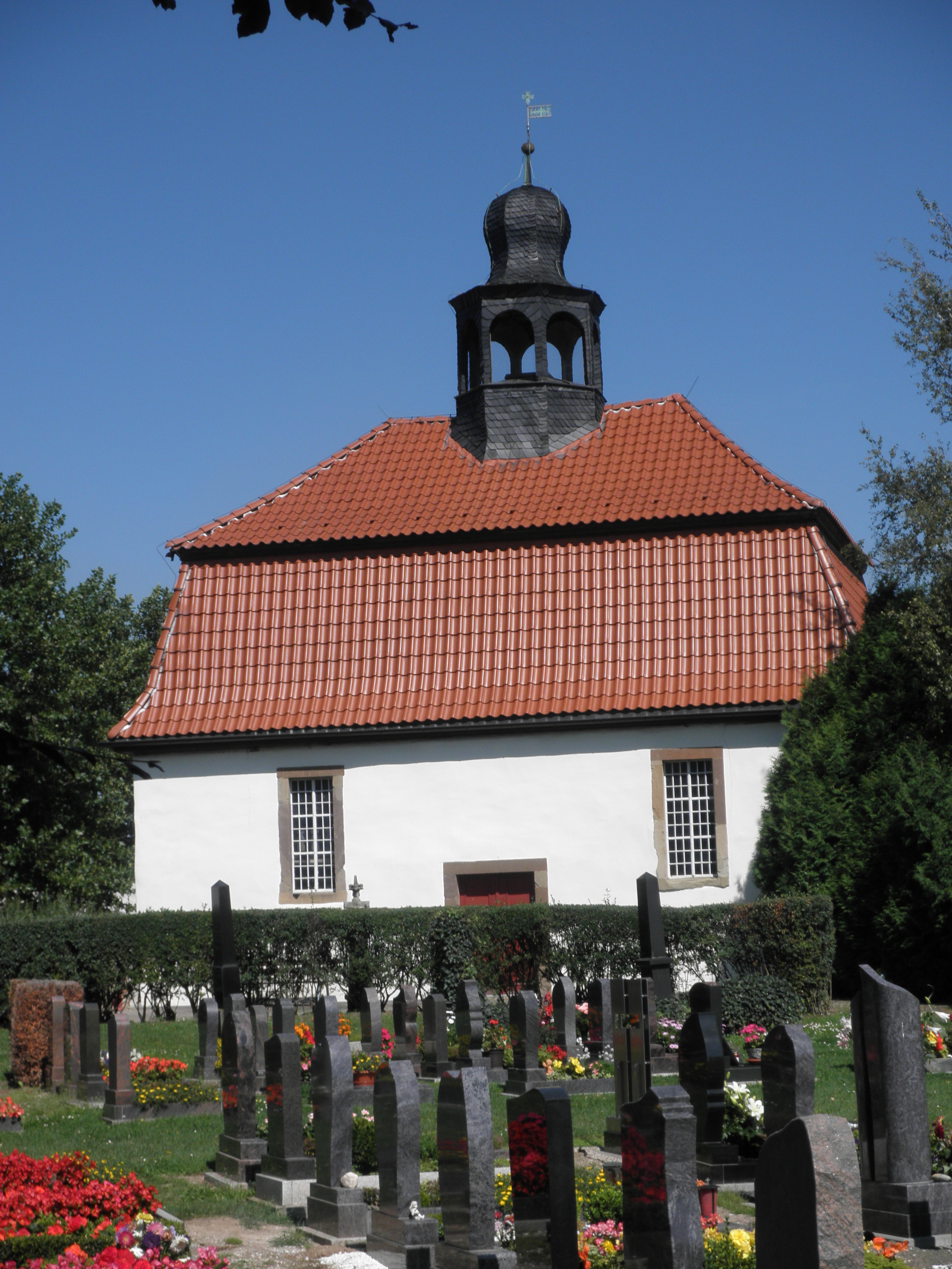 Chapel in Neunheilingen in Thuringia